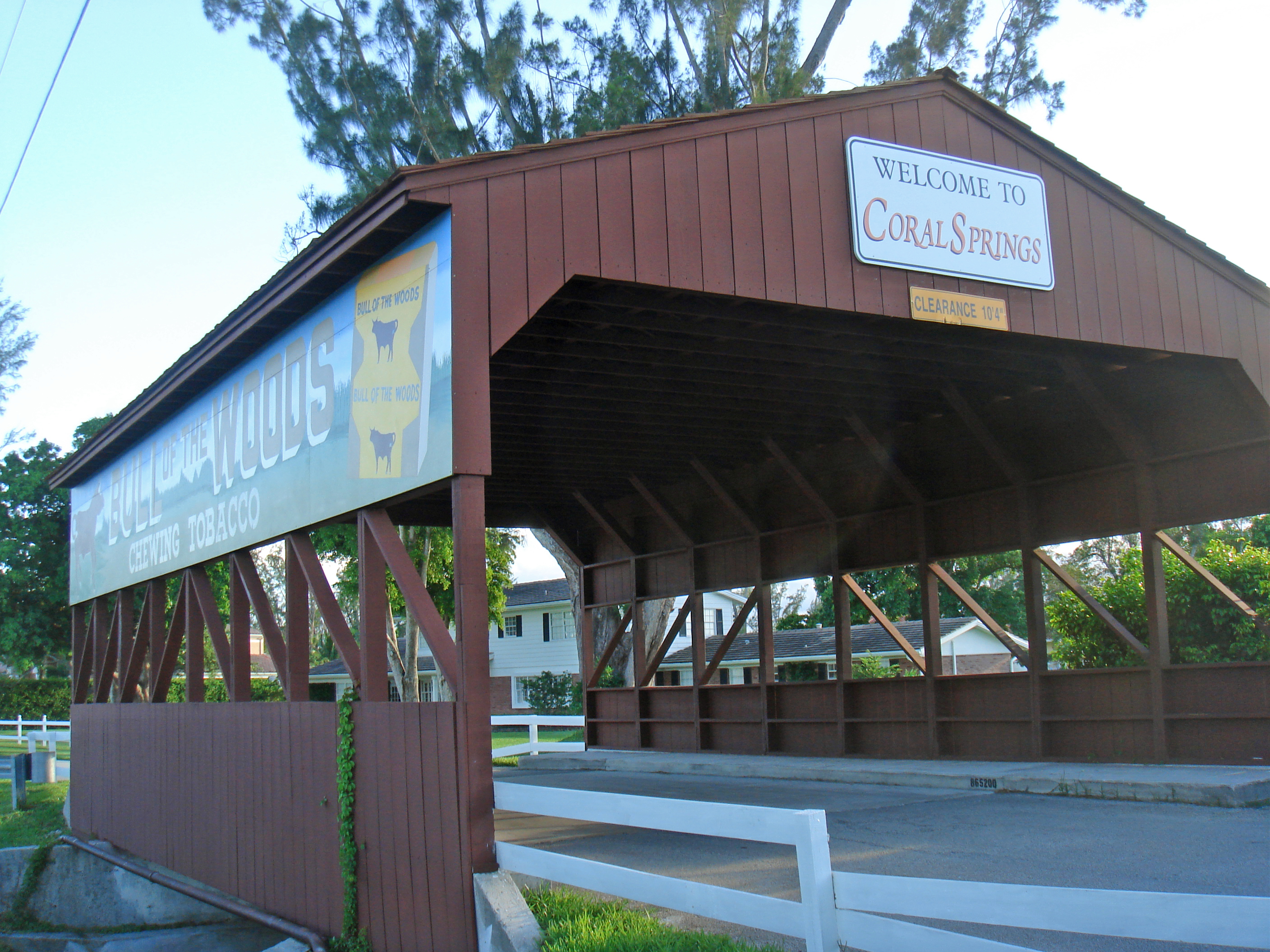 Coral Springs Covered Bridge - Levels Corrected and Cropped